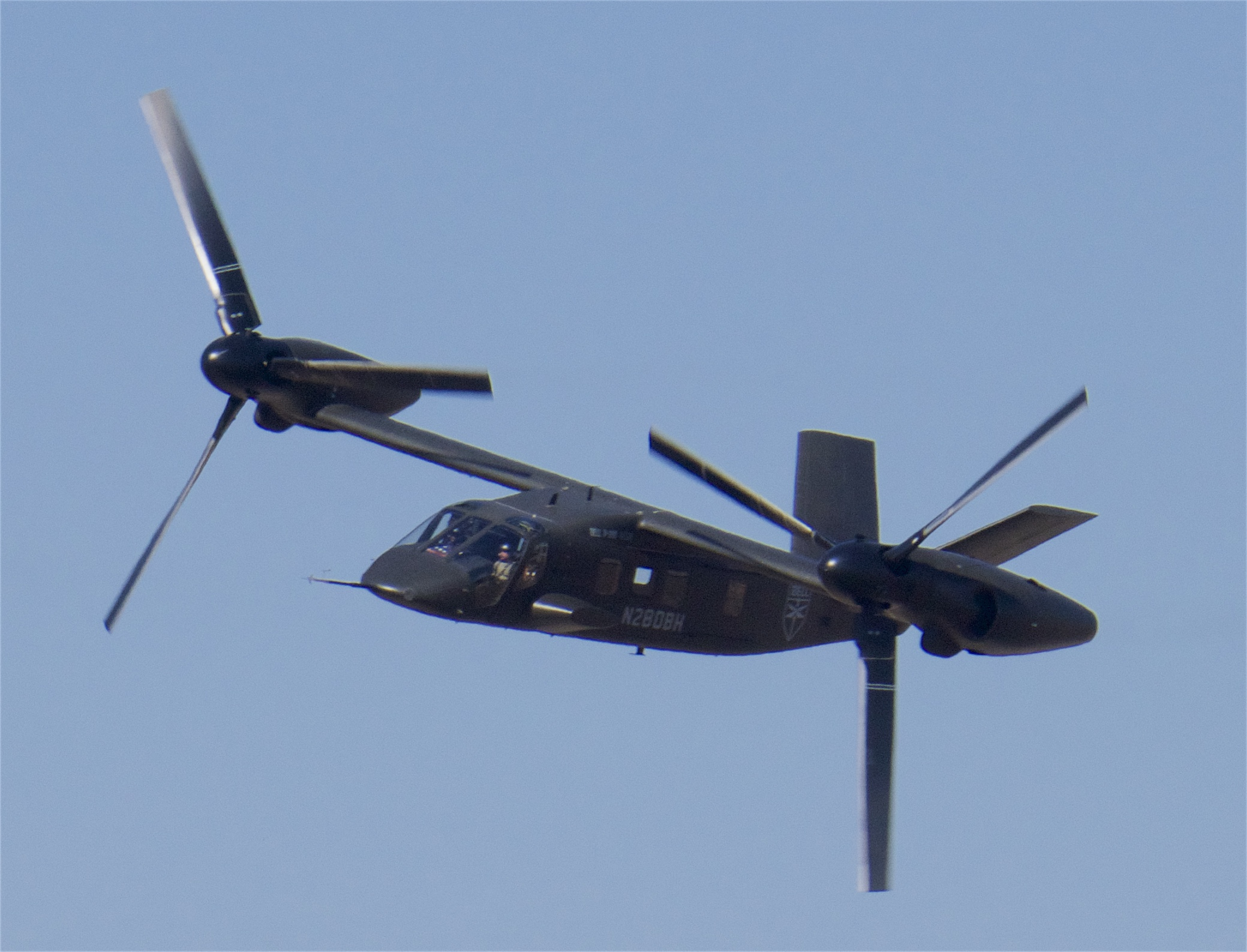 Bell V-280 Valor demonstrating high speed cruise configuration at the 2019 Alliance Air Show, Fort Worth, TX.